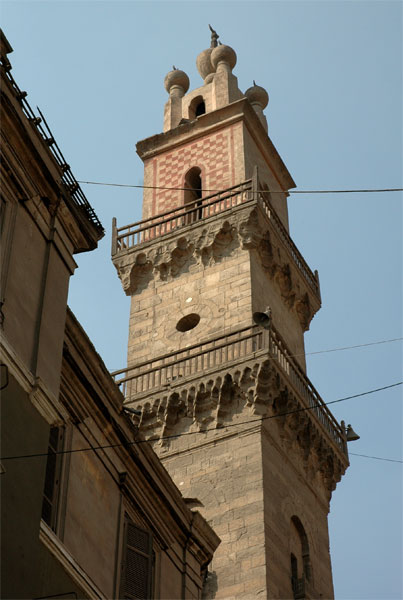 Madrasa of al-Ghuri. Minaret. Cairo. Egypt